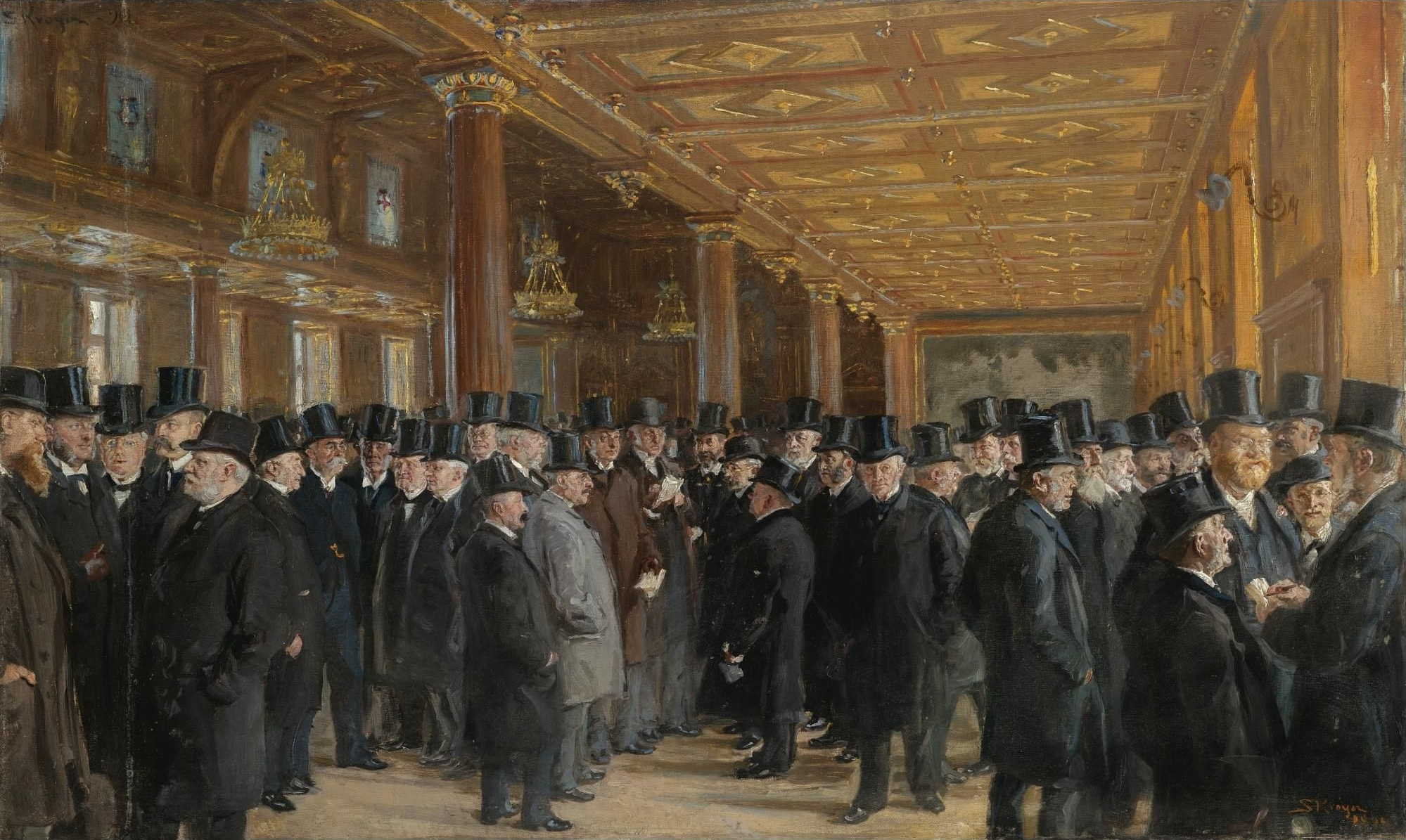 Fra Københavns børs skitse, 49.53 X 80.01 cm, oil on canvas